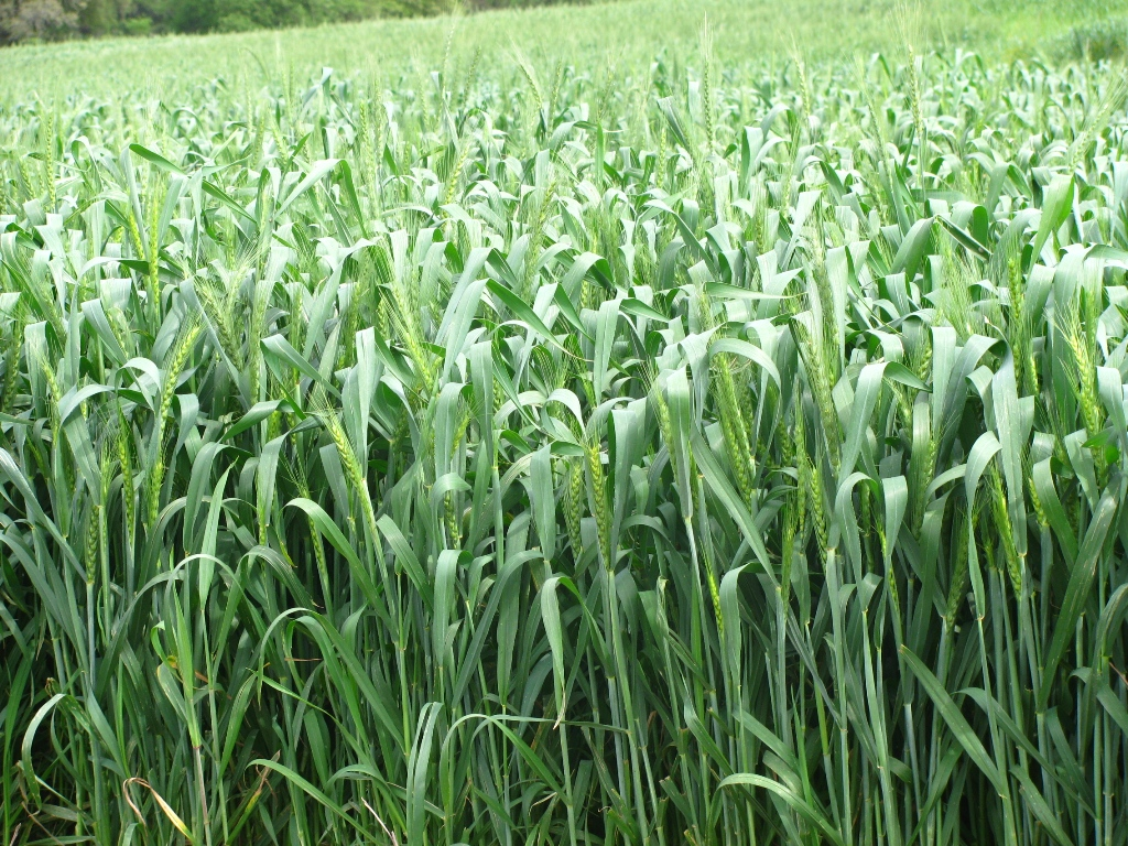 Wheat fields